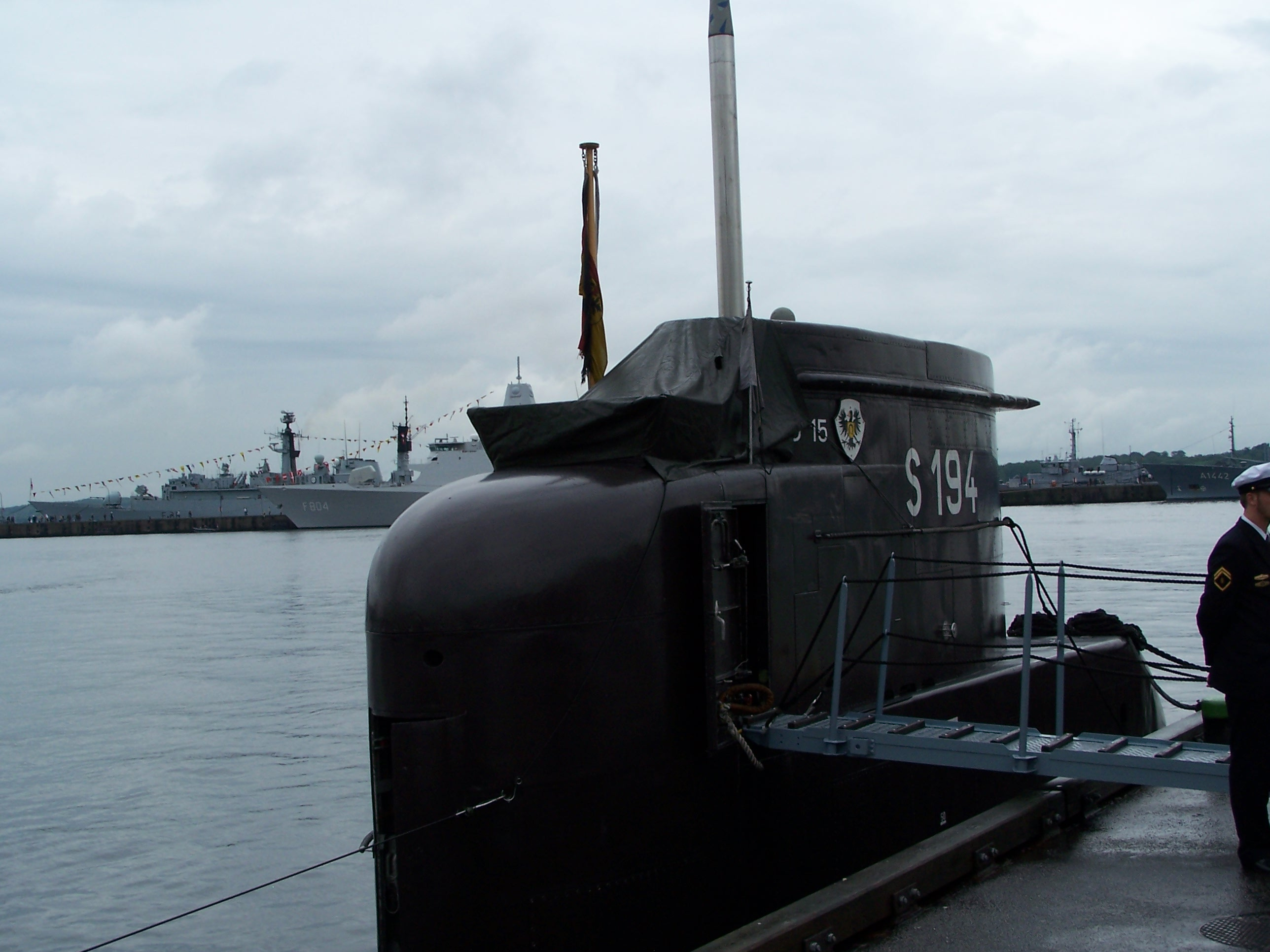 Own Work U15 at the Kiel Week 2007